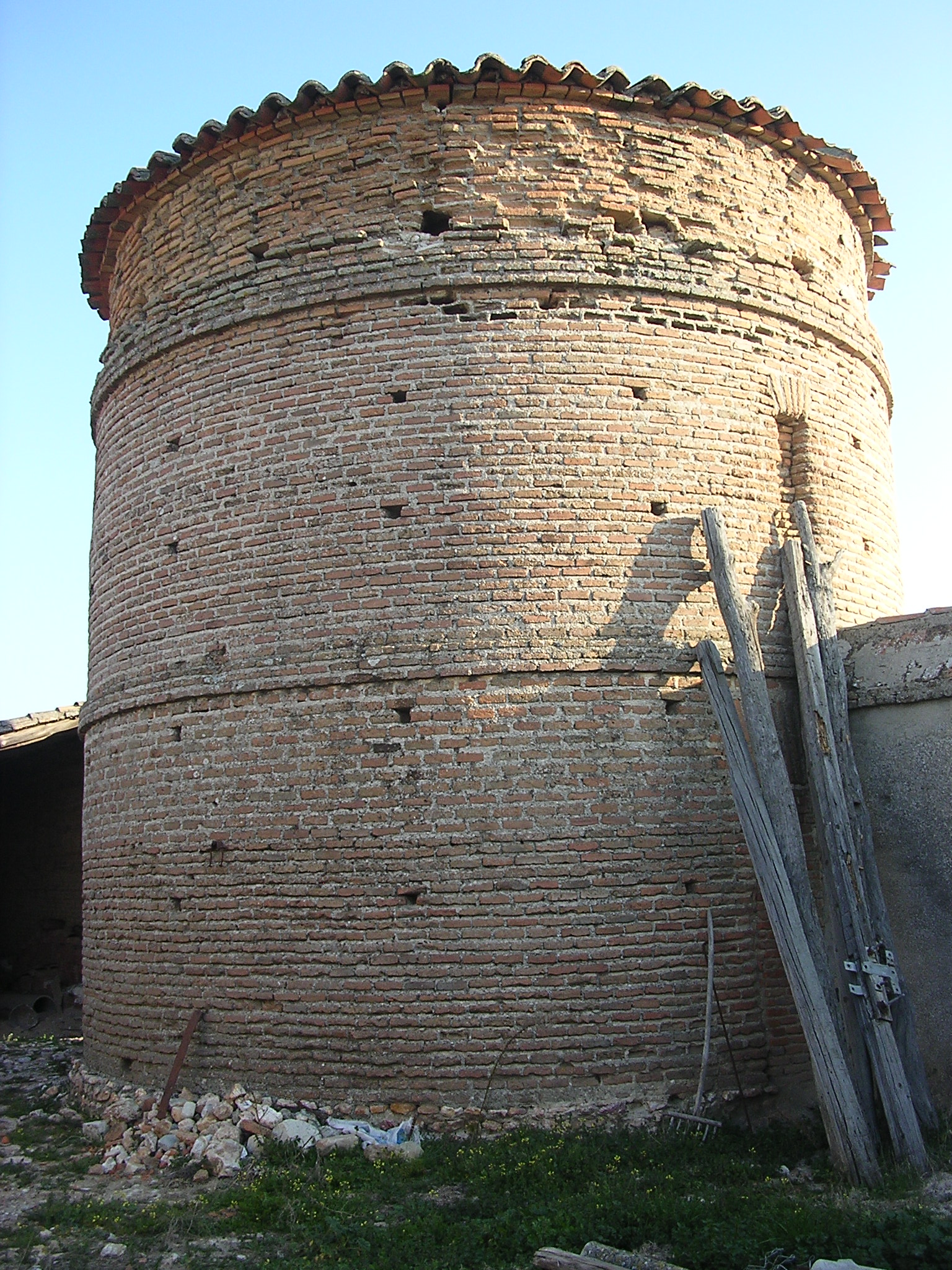 Tower of Valmojado (Castile)